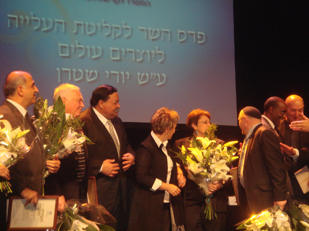 Dina Rubina the award ceremony the Minister of immigrant absorption, Yuri Stern. February 2009